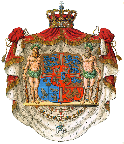 Coat of arms of Denmark. Version used from 1903 to 1948. Christian X of Denmark also carried the title of King of Iceland 1918-1944, and despite the end of monarchy in Iceland in 1944, his coat of arms continued to display the Icelandic falcon until his death (1947). The falcon was removed from the Danish arms in 1948 during the reign of his son, King Frederick IX.